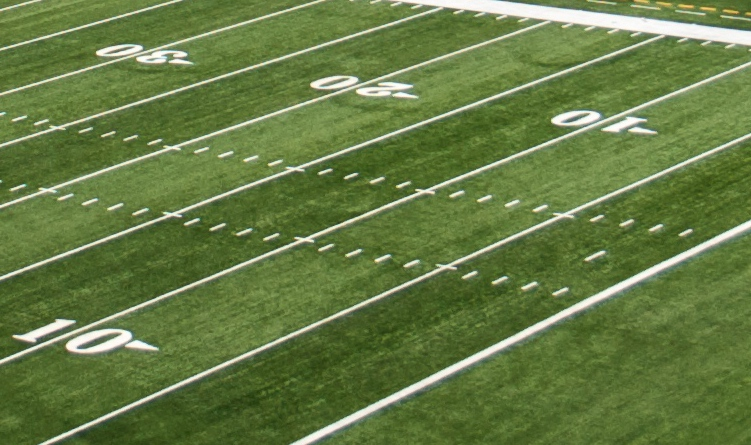 View of the field at the New Meadowlands Stadium, 2010. Cropped to focus on the hash marks.